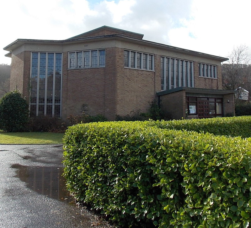 Church of St Luke, Rhydyfelin. Viewed from Cardiff Road. The church is in the Church in Wales Parish of Rhydyfelin, Diocese of Llandaff.